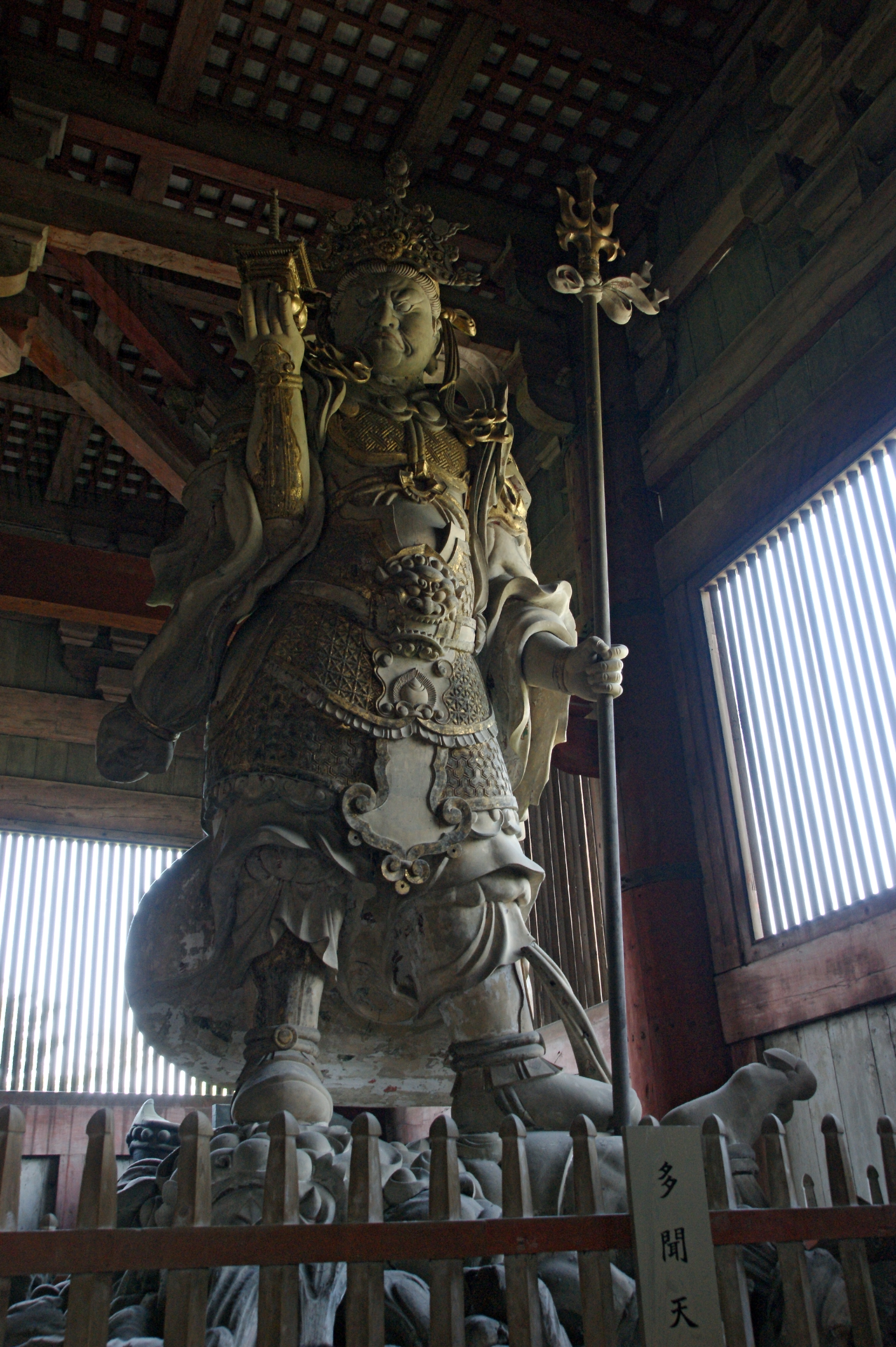 Todaiji in Nara, Nara prefecture, Japan